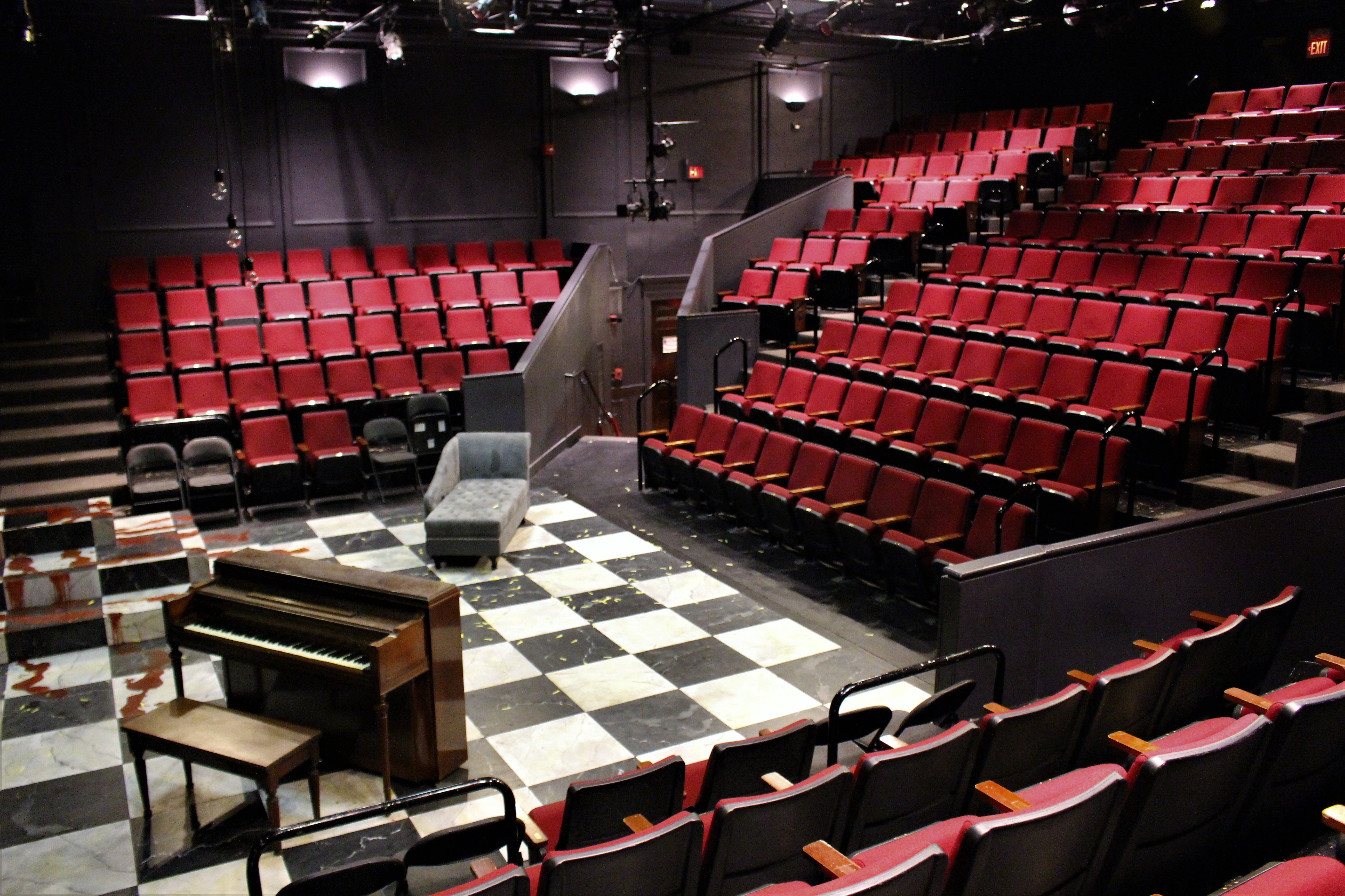 The inside of the Lyric Stage's theatre. In view are seats and the stage, which is displaying the set of Murder for Two.